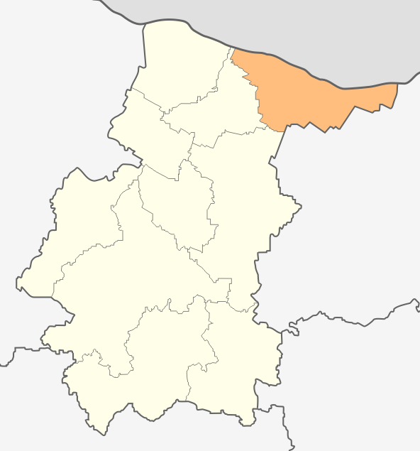 Map of Oryahovo municipality, Vratsa Province